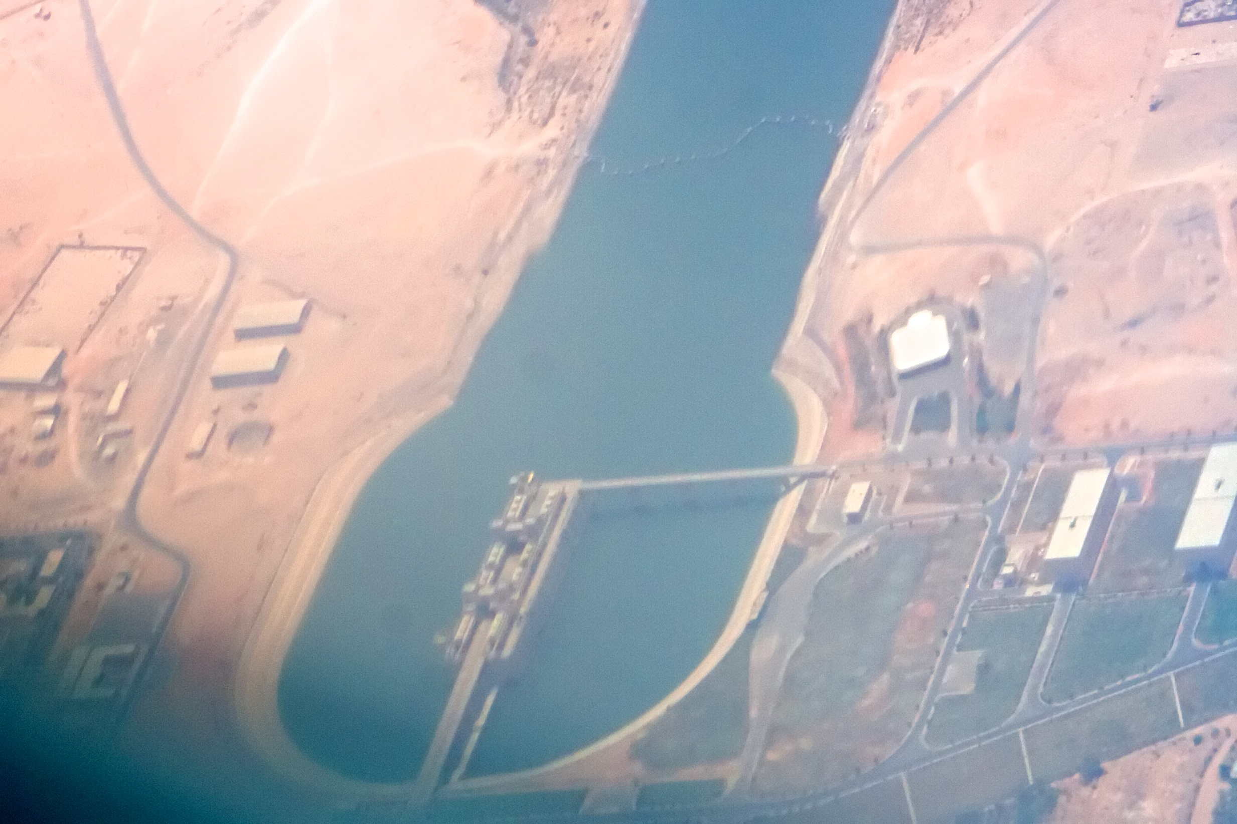 aerial photo of the Mubarak Pumping Station